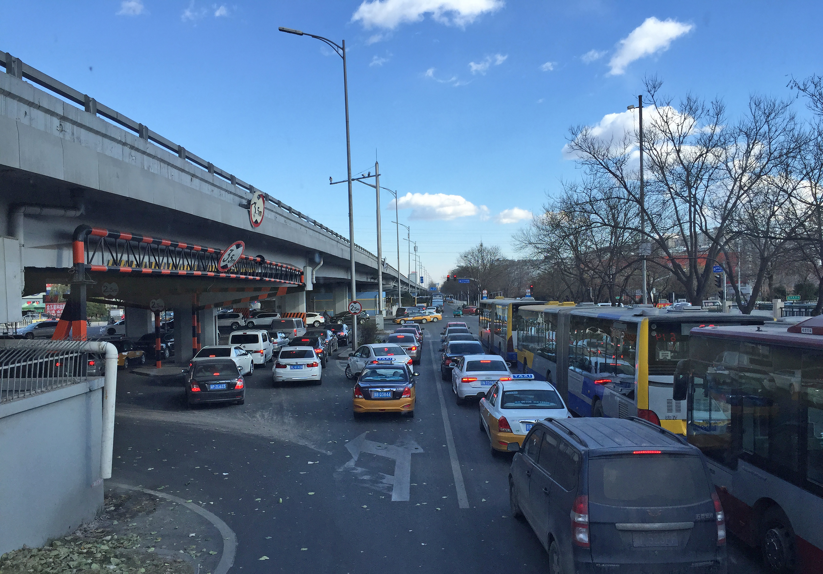 Taken from the upper deck of T8.